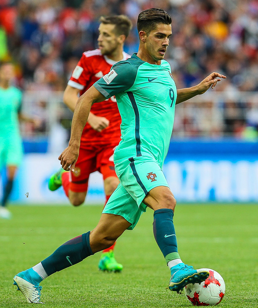 Russia VS. Portugal 0 - 1, 21 June 2017